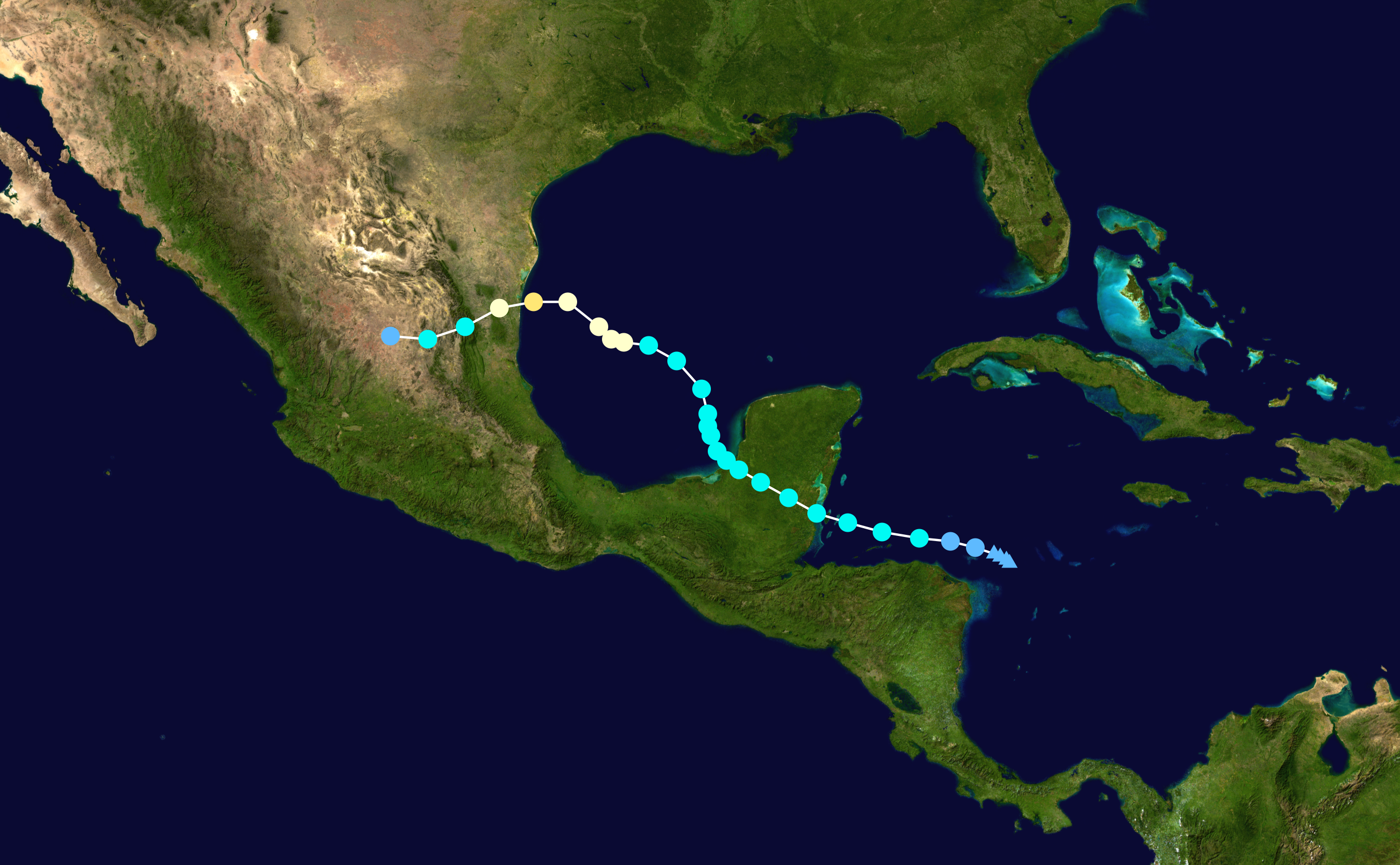 Track map of Hurricane Alex of the 2010 Atlantic hurricane season. The points show the location of the storm at 6-hour intervals. The colour represents the storm's maximum sustained wind speeds as classified in the Saffir–Simpson scale (see below), and the shape of the data points represent the nature of the storm, according to the legend below. Saffir–Simpson scale Tropical depression≤38 mph≤62 km/h Category 3111–129 mph178–208 km/h Tropical storm39–73 mph63–118 km/h Category 4130–156 mph209–251 km/h Category 174–95 mph119–153 km/h Category 5≥157 mph≥252 km/h Category 296–110 mph154–177 km/h Unknown Storm type Tropical cyclone Subtropical cyclone Extratropical cyclone / Remnant low / Tropical disturbance / Monsoon depression